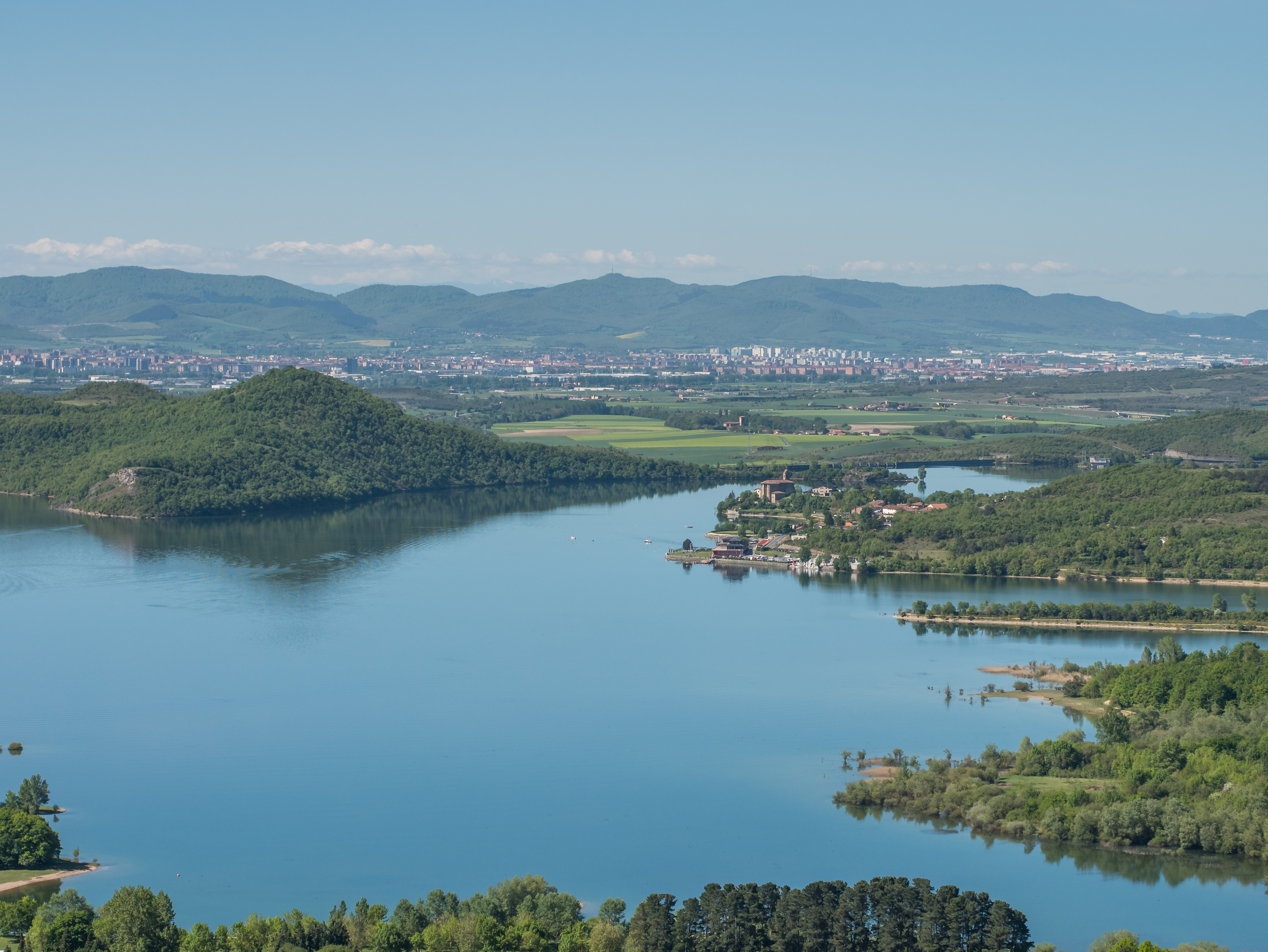 Ullíbarri-Gamboa reservoir, viewed from the Elgea mountain range. In the background Vitoria-Gasteiz. Álava, Basque Country, Spain